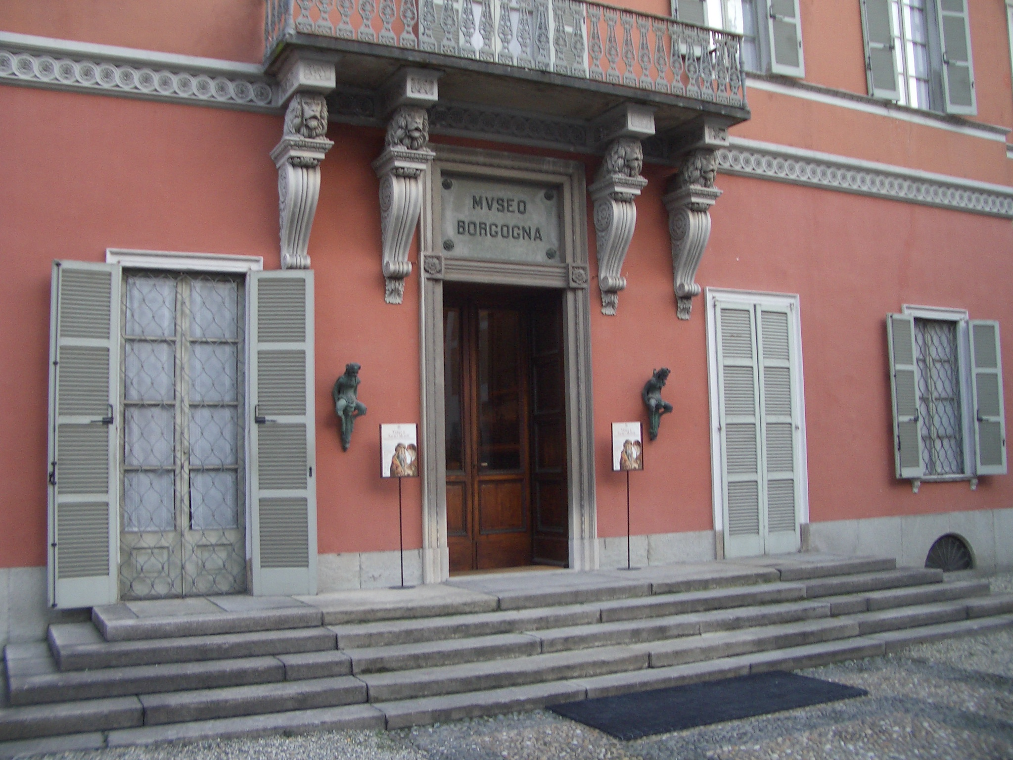 Photo of the Museo Francesco Borgogna entrance, Vercelli, Italy